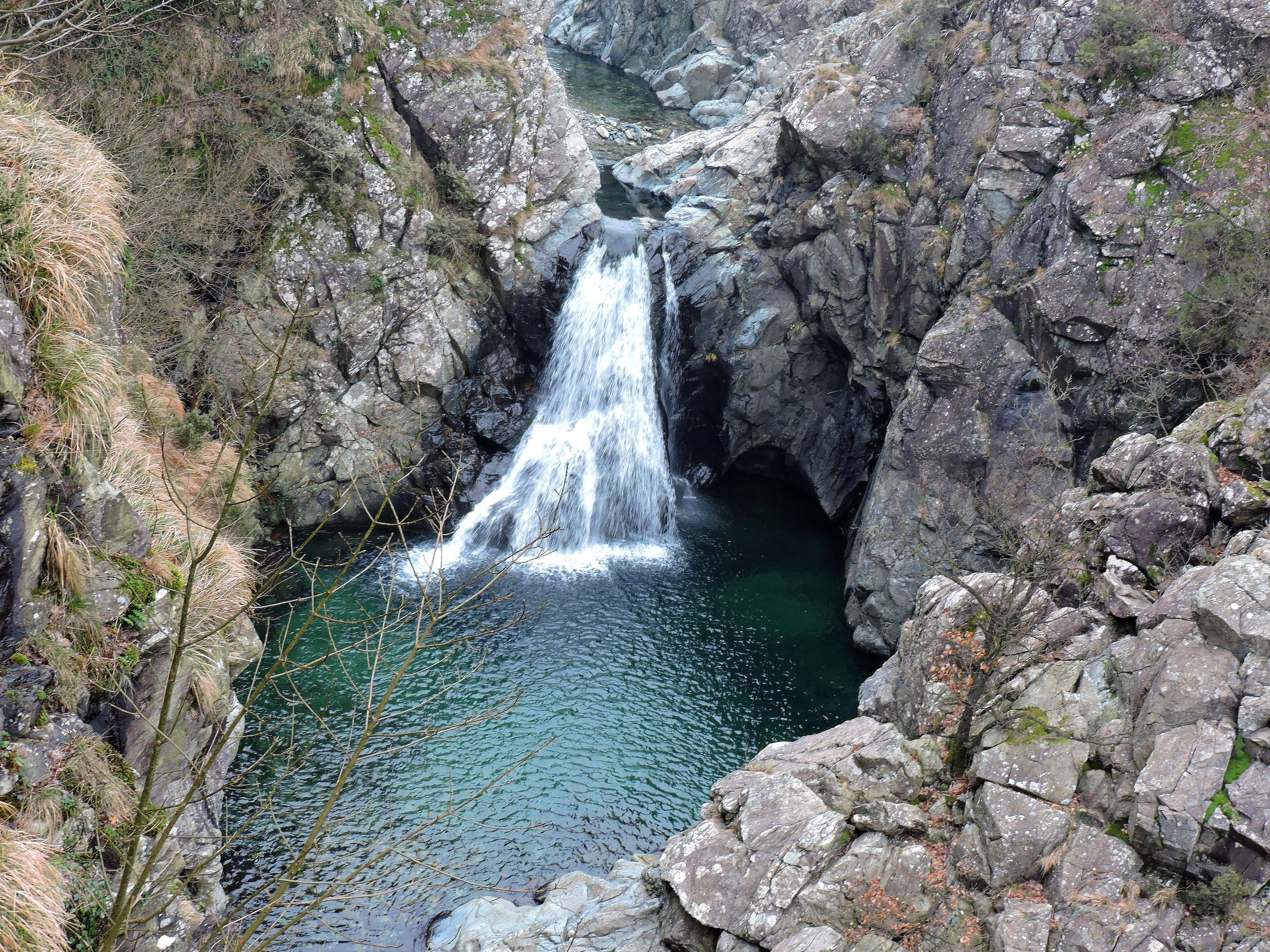 Cascata del Serpente (Snake's Waterfall), Masone, Italy